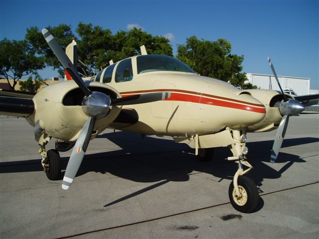 1961 J50 Supercharged Twin Bonanza